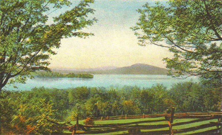 View across Rangeley Lake, Rangeley, ME; from a c. 1920 postcard.